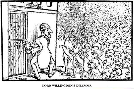 Caricature of Gandhi in jail with Lord Willingdon, between 1930 and 1932.